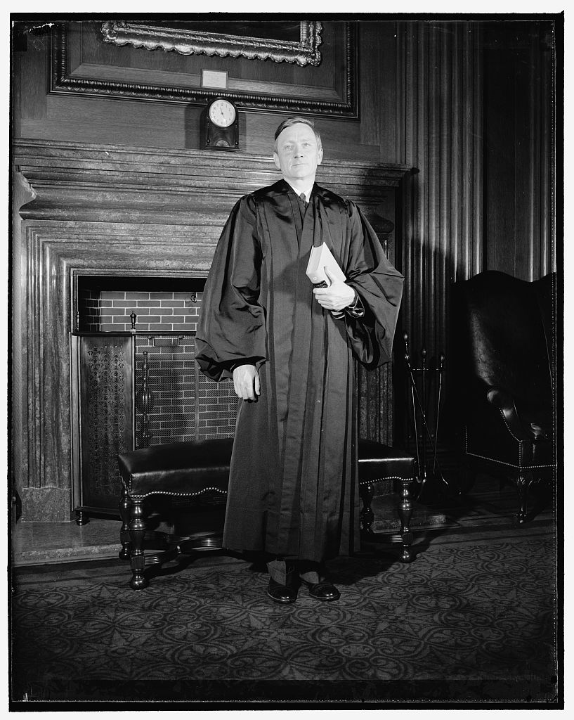 Douglas dons robes of Supreme Court Justice.